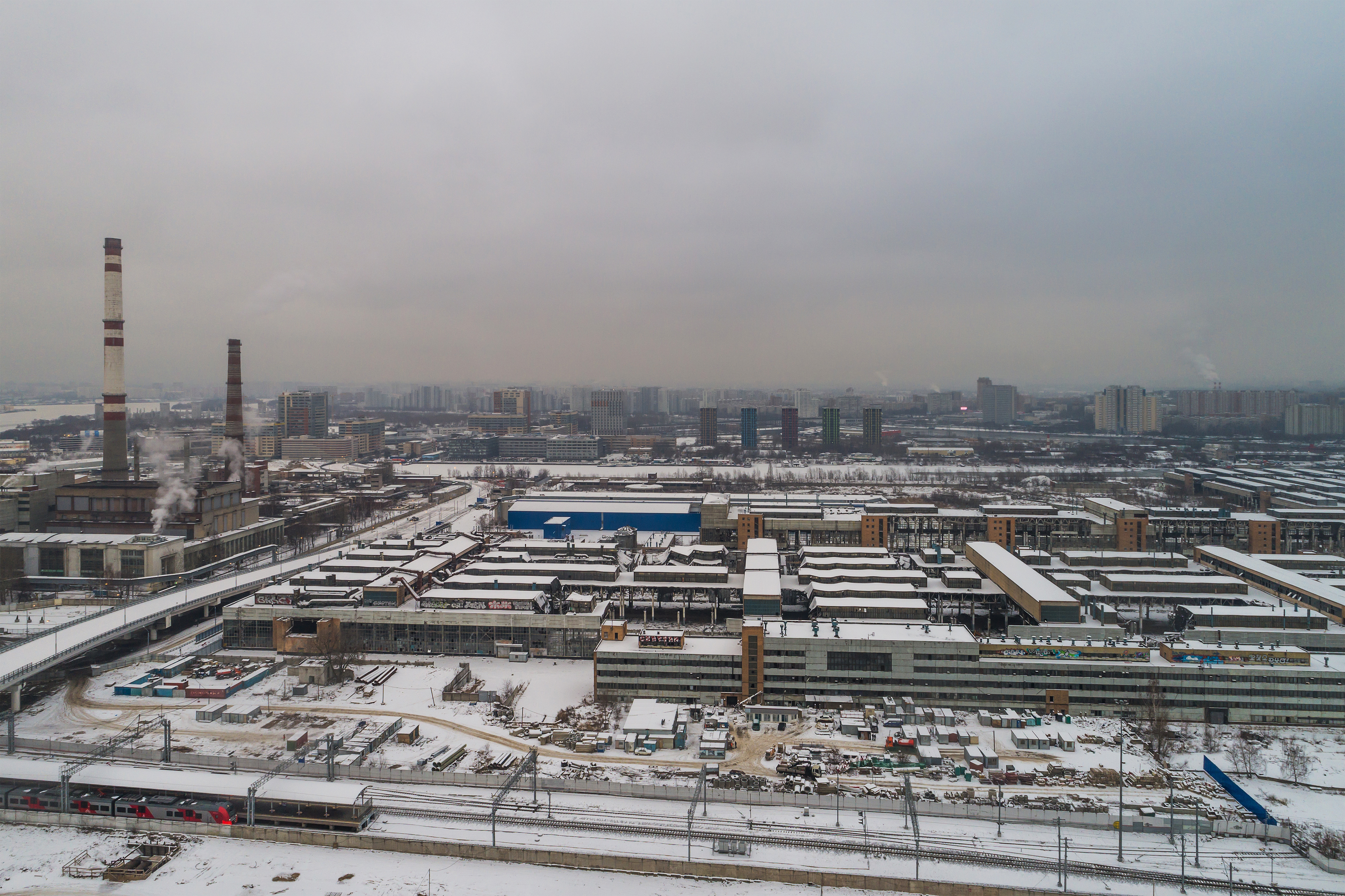 Aerial photo of former ZiL plant, Moscow